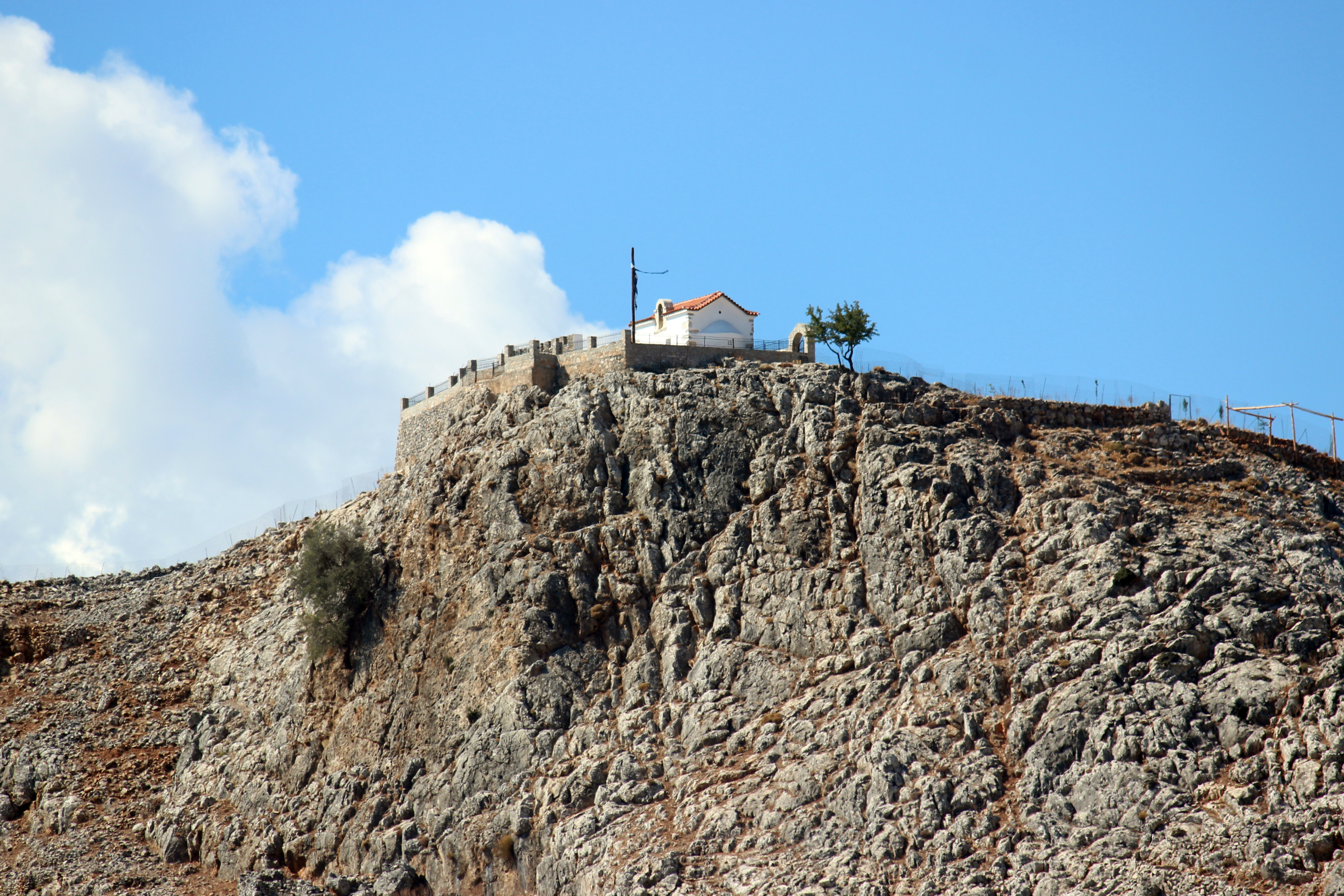 Agía Ekateríni, in Anopoli, Municipality Sfakia, Regional unit Chania, in the southwestern part of the island of Crete, Greece